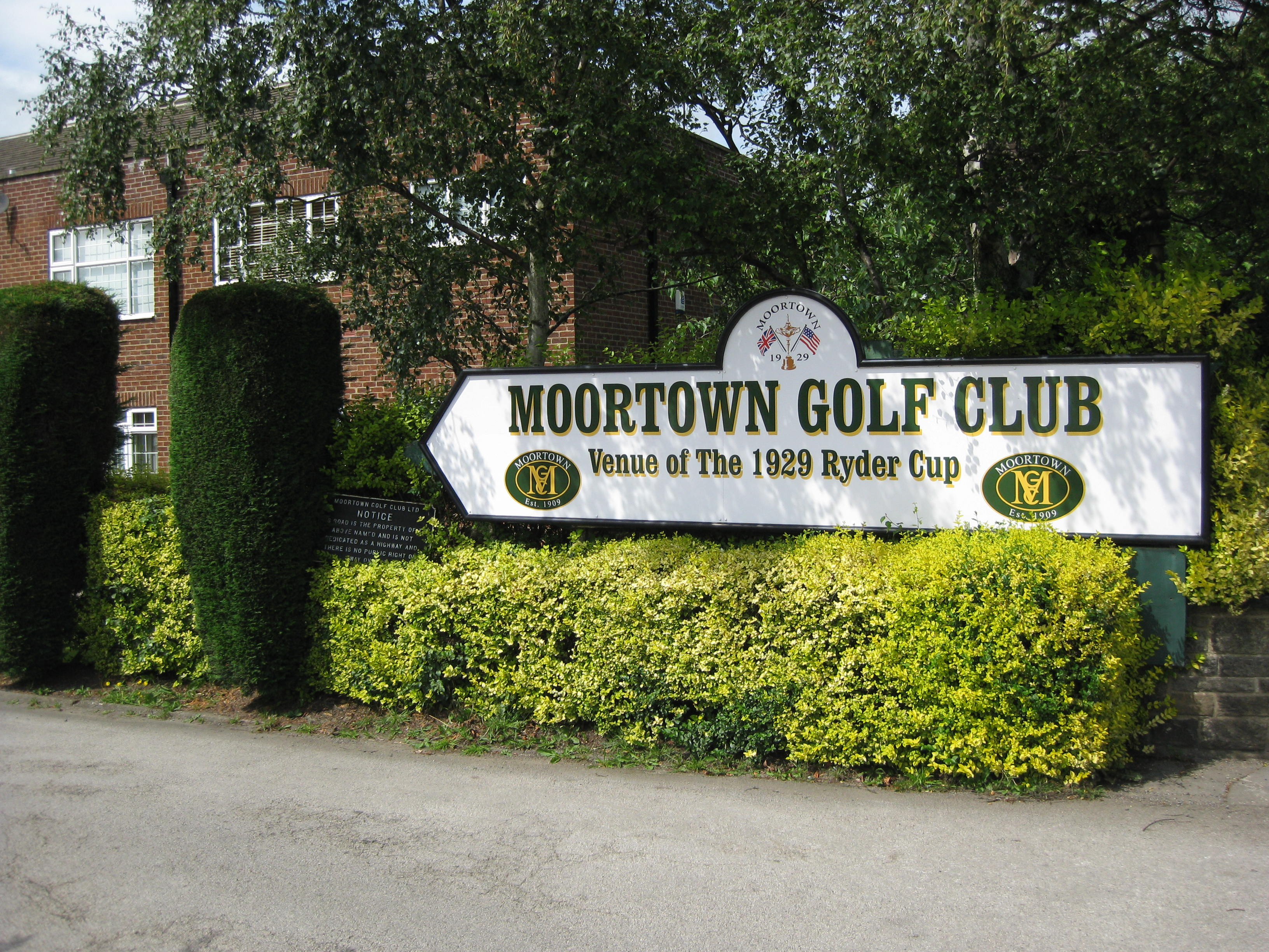 Moortown Golf Club entrance, Harrogate Road, Leeds.